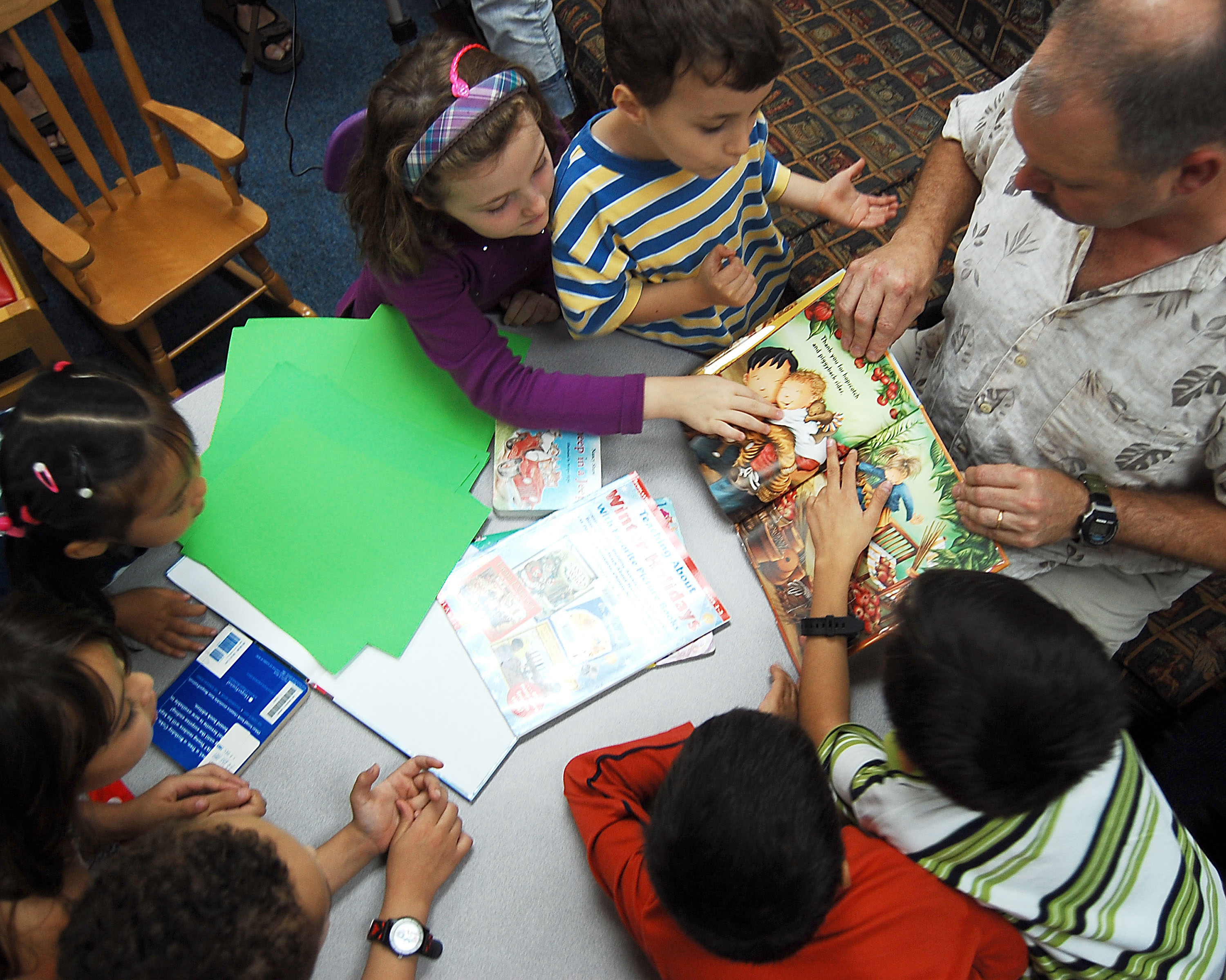 BAHRAIN (Nov. 22, 2008) Students from the Bahrain School share an interactive reading experience with U.S. Naval Support Activity Bahrain Command Master Chief Randy Shoe during "Family Story Time" in the U.S. Naval Support Activity Bahrain Library. "Family Story Time" is a monthly Morale, Welfare and Recreation Bahrain program which features reading, craft-making and game-playing activities during which students and their parents and their parents spend quality time together. (U.S. Navy photo by Mass Communication Specialist 2nd Class Stephen Murphy/Released)